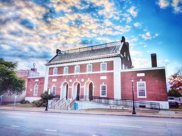 An HDR photo of the United States Post Office (Amsterdam, New York).